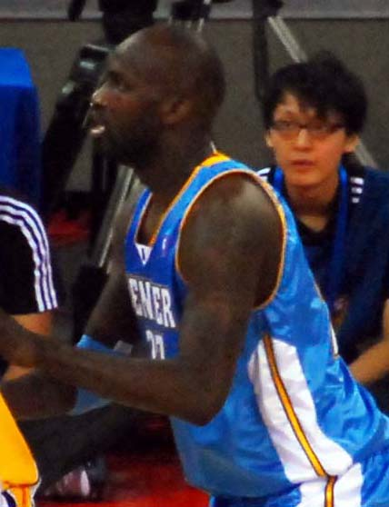 Johan Petro of the Denver Nuggets in a preseason National Basketball Association game against the at the Beijing Wukesong Culture & Sports Center in Beijing in October 2009.